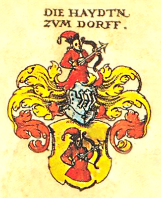 Coat of Arms of Hayden zum Dorff, Austria